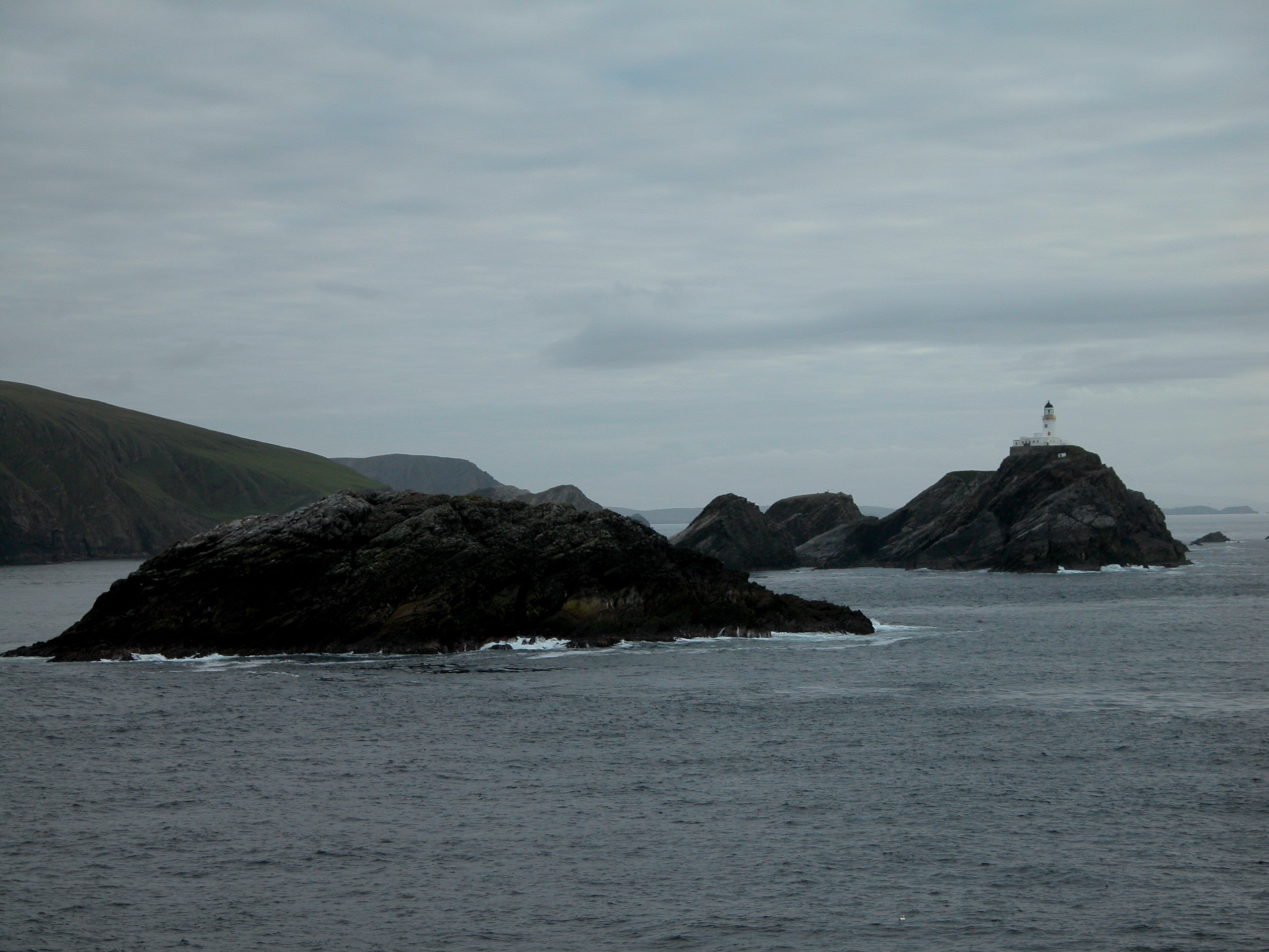 Out Stack or Ootsta in Shetland, Scotland, is the northernmost of the British Isles, lying immediately 600m north of Muckle Flugga